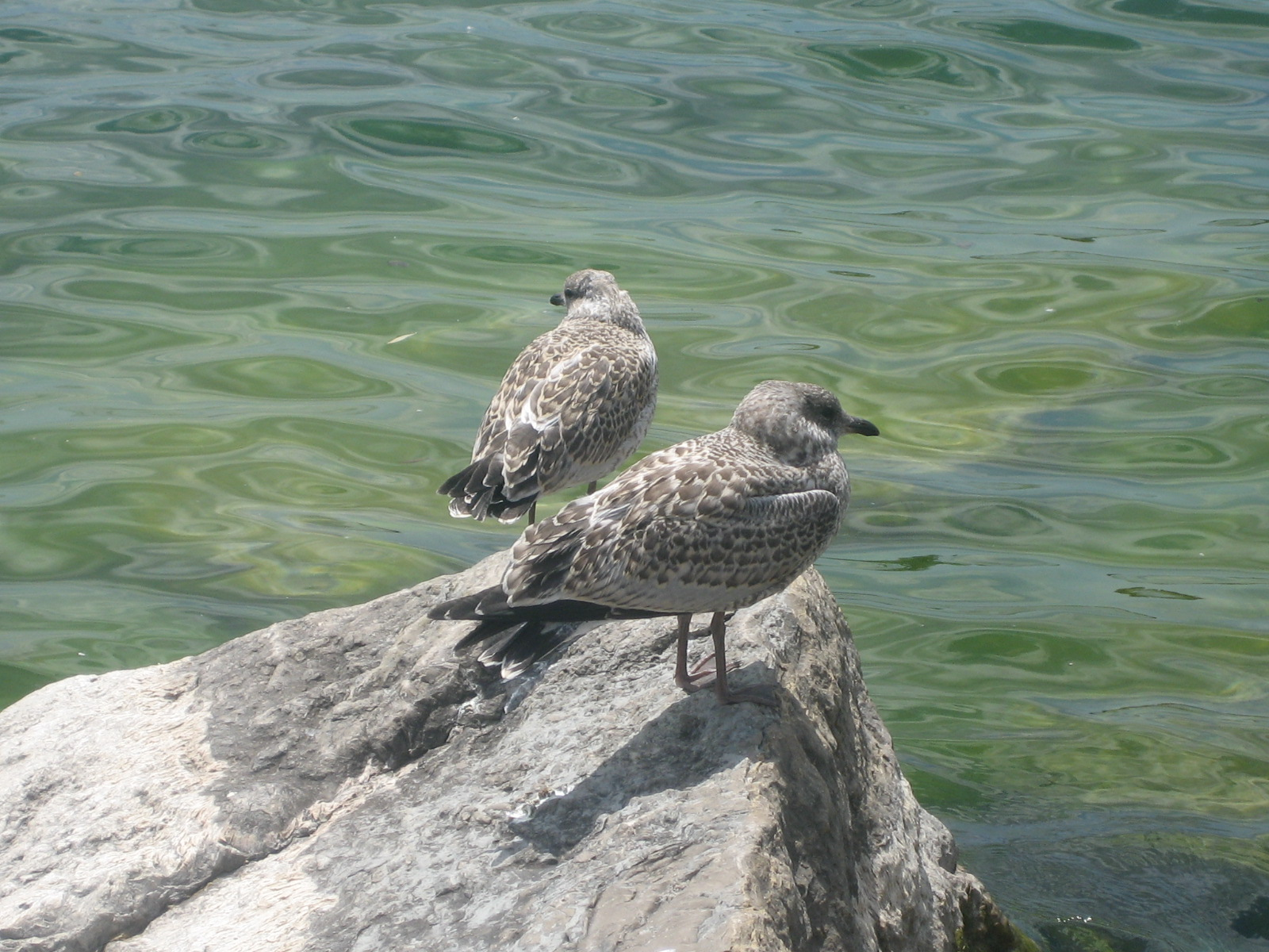 Two American Herring Gulls on the shoreline of Lake Ontario.